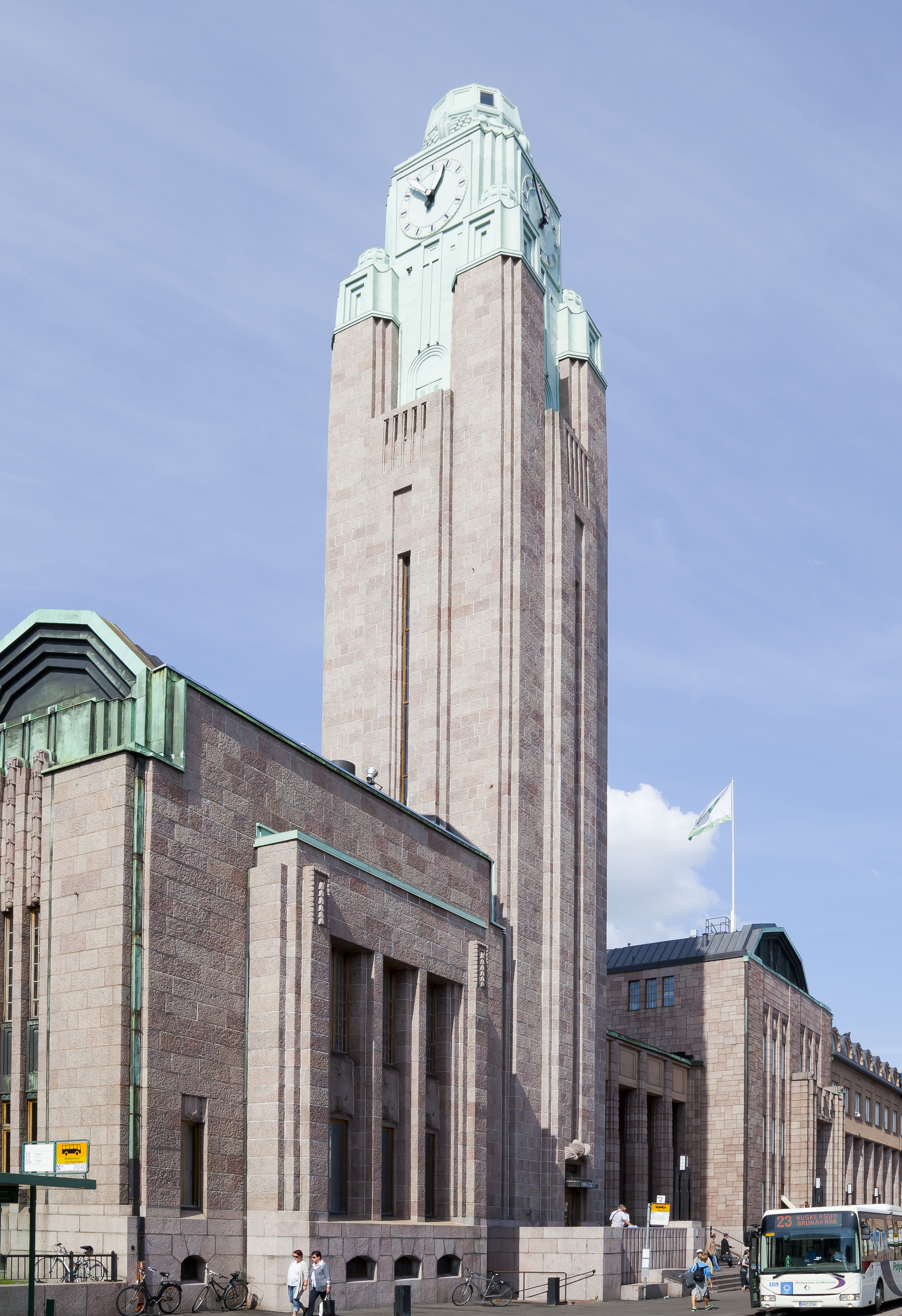 Helsinki Central railway station, Finnland